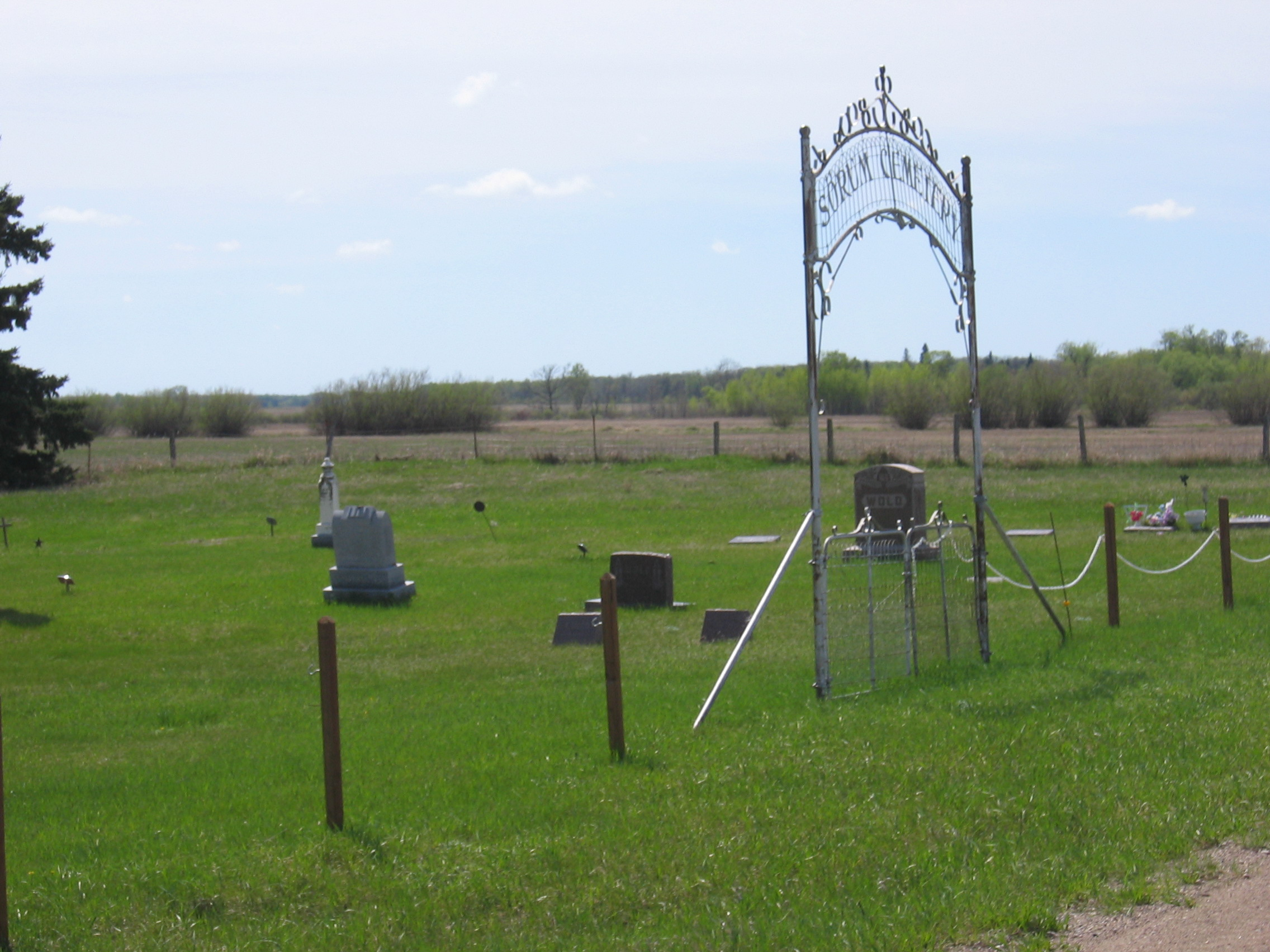 Personally photographed by the undersigned May 7, 2007 Summary Personally photographed by the undersigned May 7, 2007